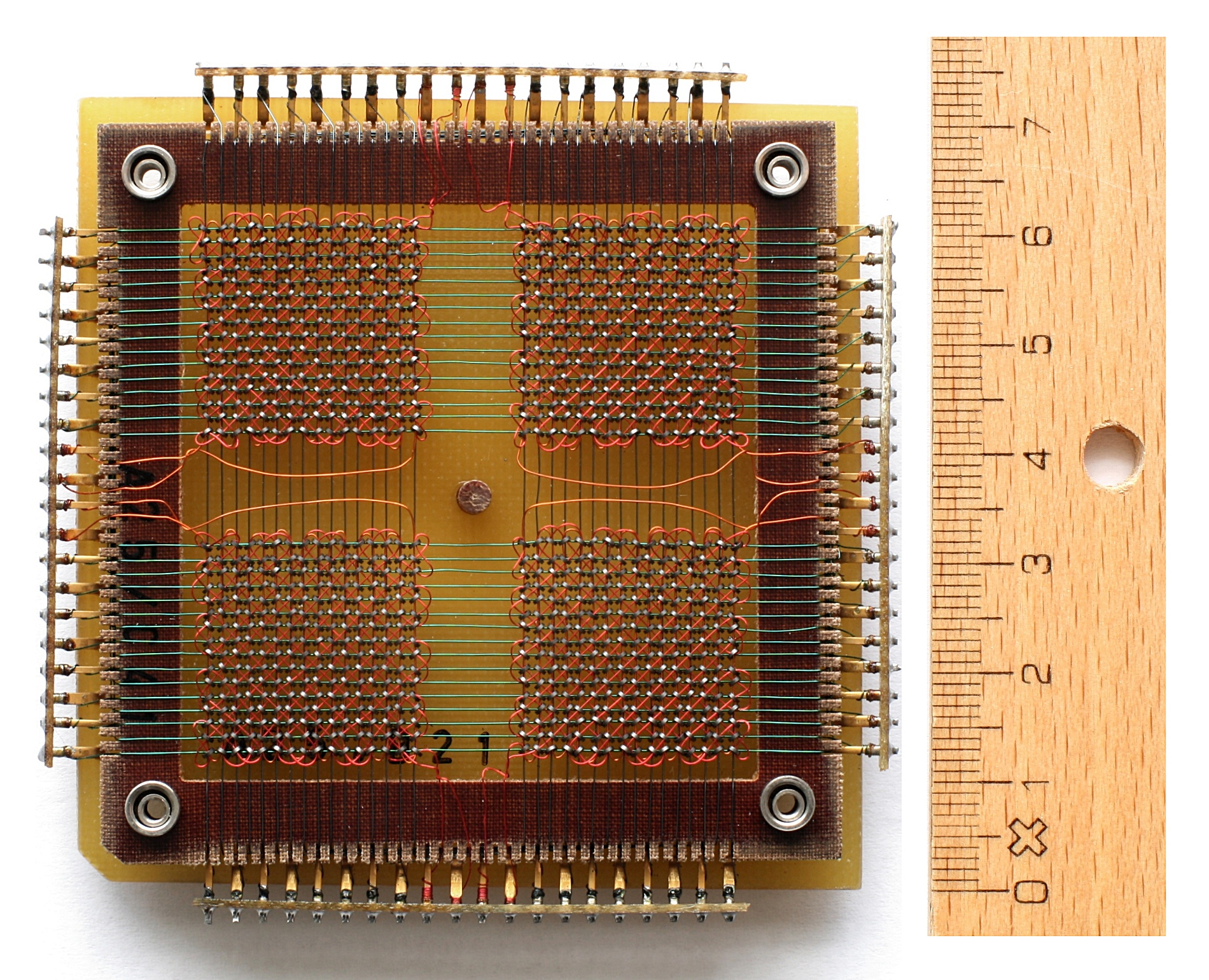 Core memory module.